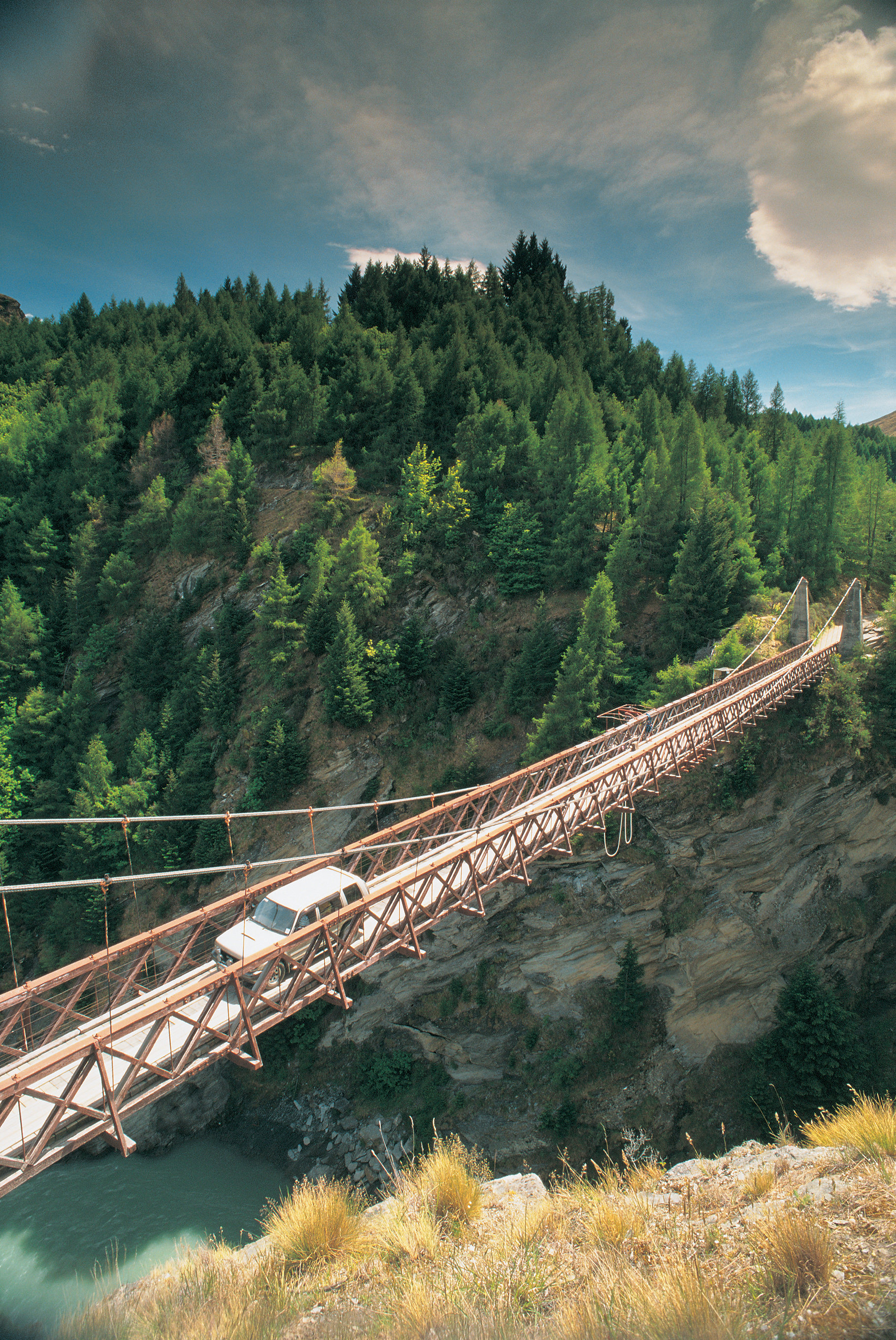 Skippers Bridge. This suspension bridge was opened in March 1901 and is still in use today. It can be found in Skippers Canyon, Queenstown, New Zealand